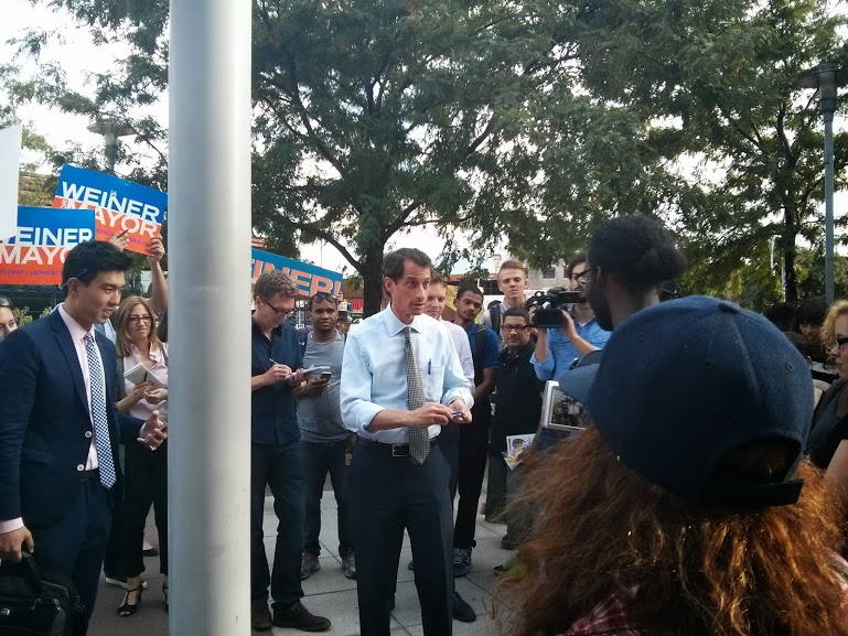 Anthony Weiner in Brooklyn, during his election campaign for mayor of New York in 2013